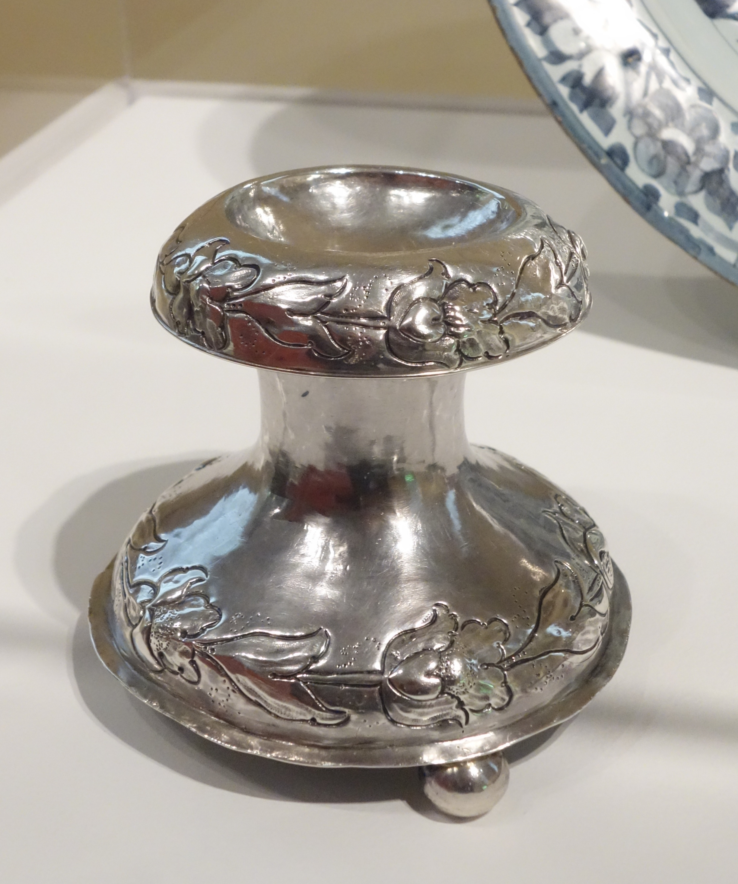 Exhibit in the Brooklyn Museum - Brooklyn, New York, USA. This artwork is in the public domain because the artist died more than 70 years ago.